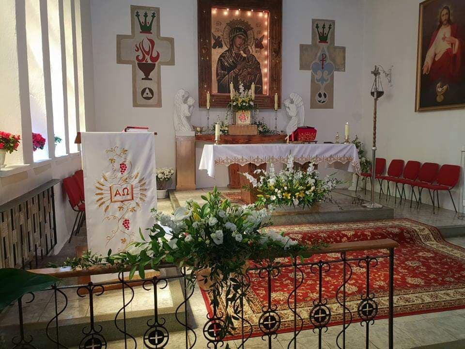 Chaple of Polish Catholic Church in Kraków.